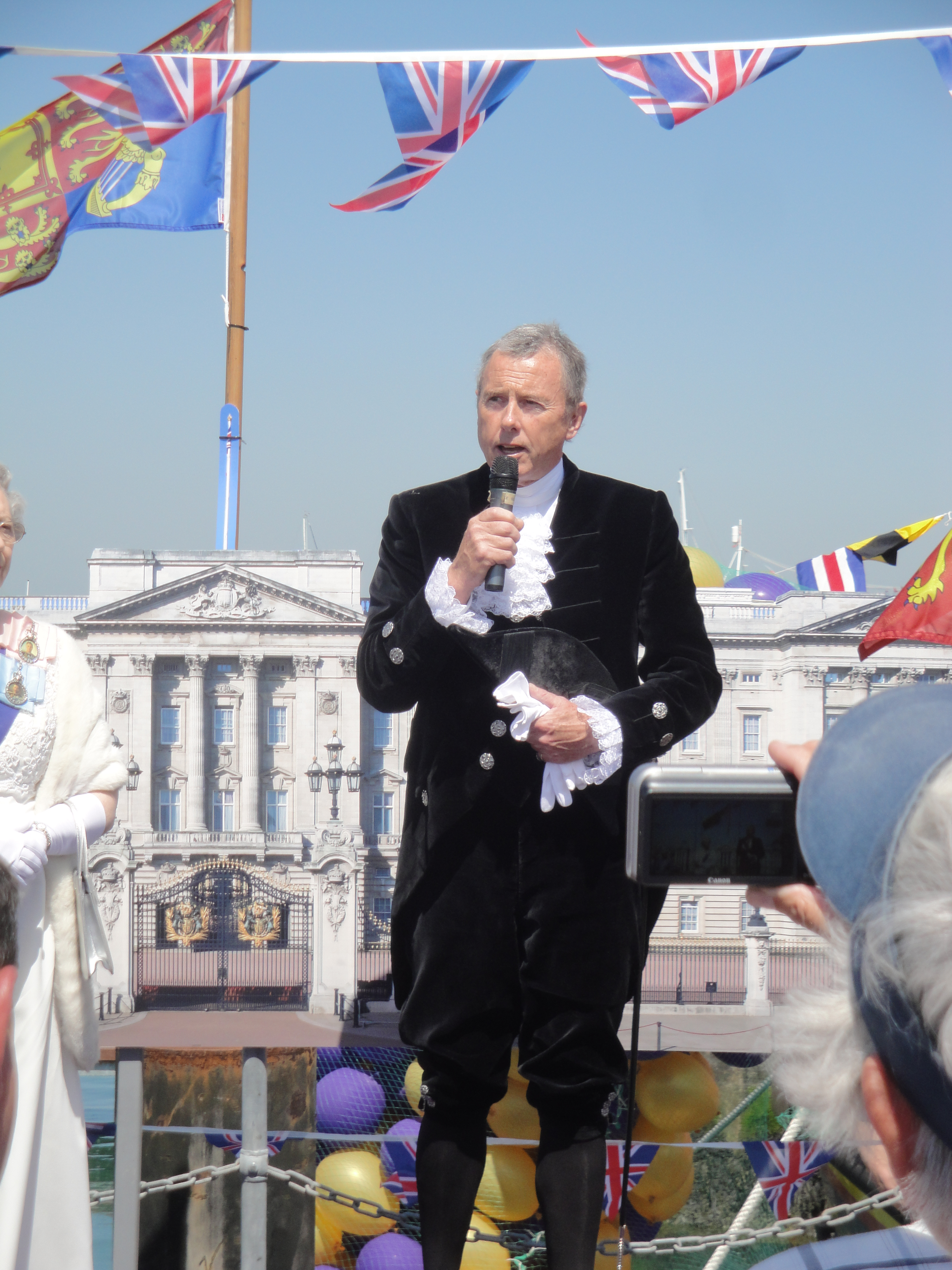 The opening ceremony of the Old Gaffers Festival 2012, held in Yarmouth, Isle of Wight. For the 2012 event, a look-a-like of Queen Elizabeth II was chosen to open the festival, along with the High Sheriff of the Isle of Wight, to co-incide with the Queen's Diamond Jubilee.